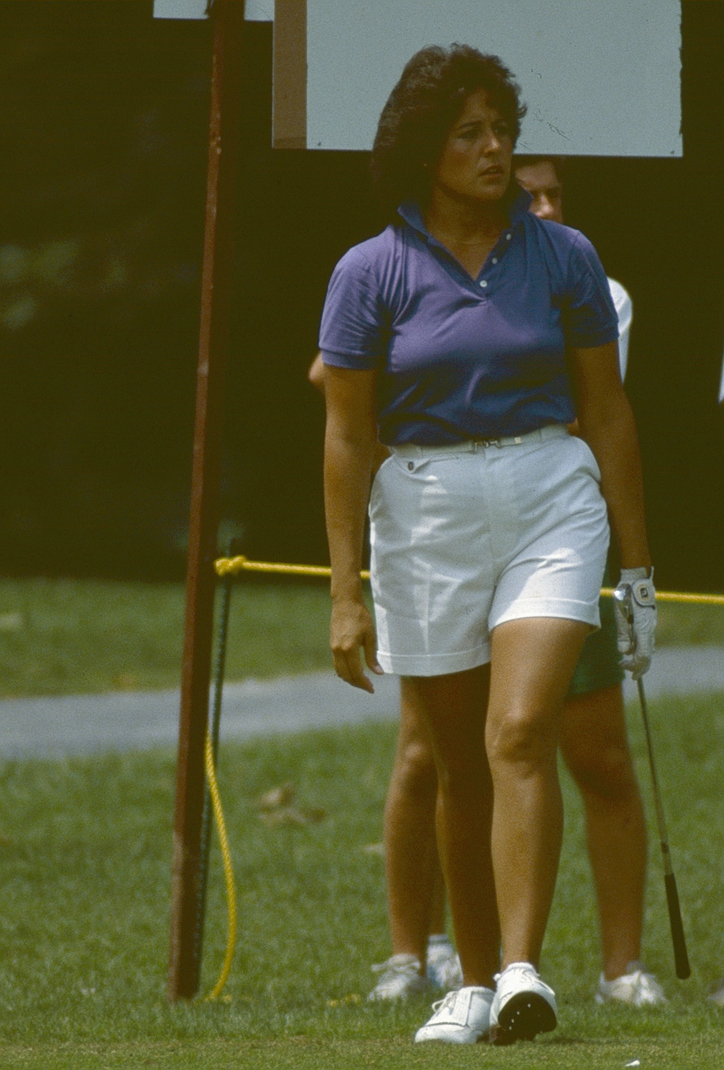 U.S. professional golfer Nancy Lopez. Photo By Ted Van Pelt